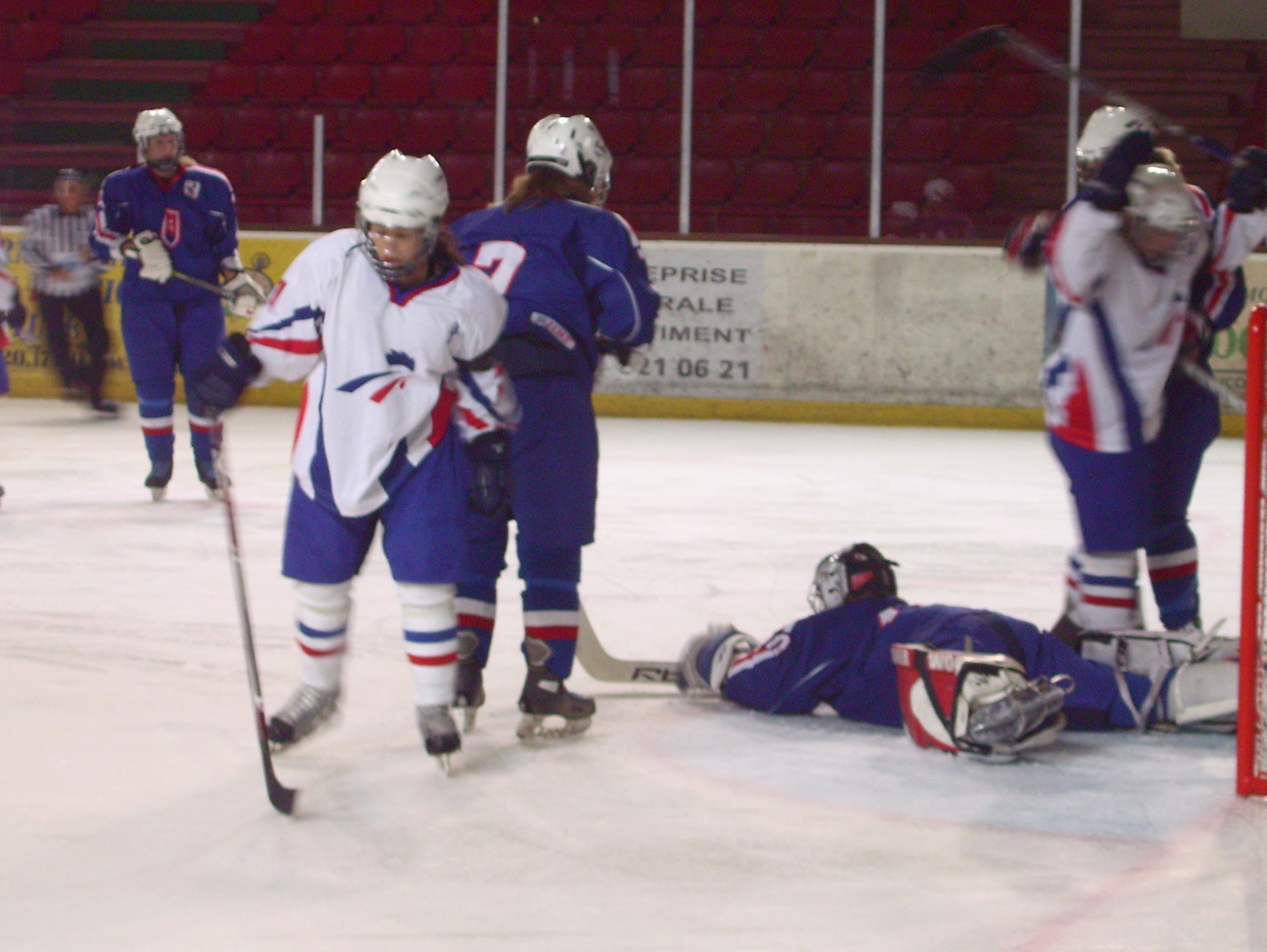 Women ice hockey. Friendly game between France and Slovakia. August 29th 2008 in Briançon, France.